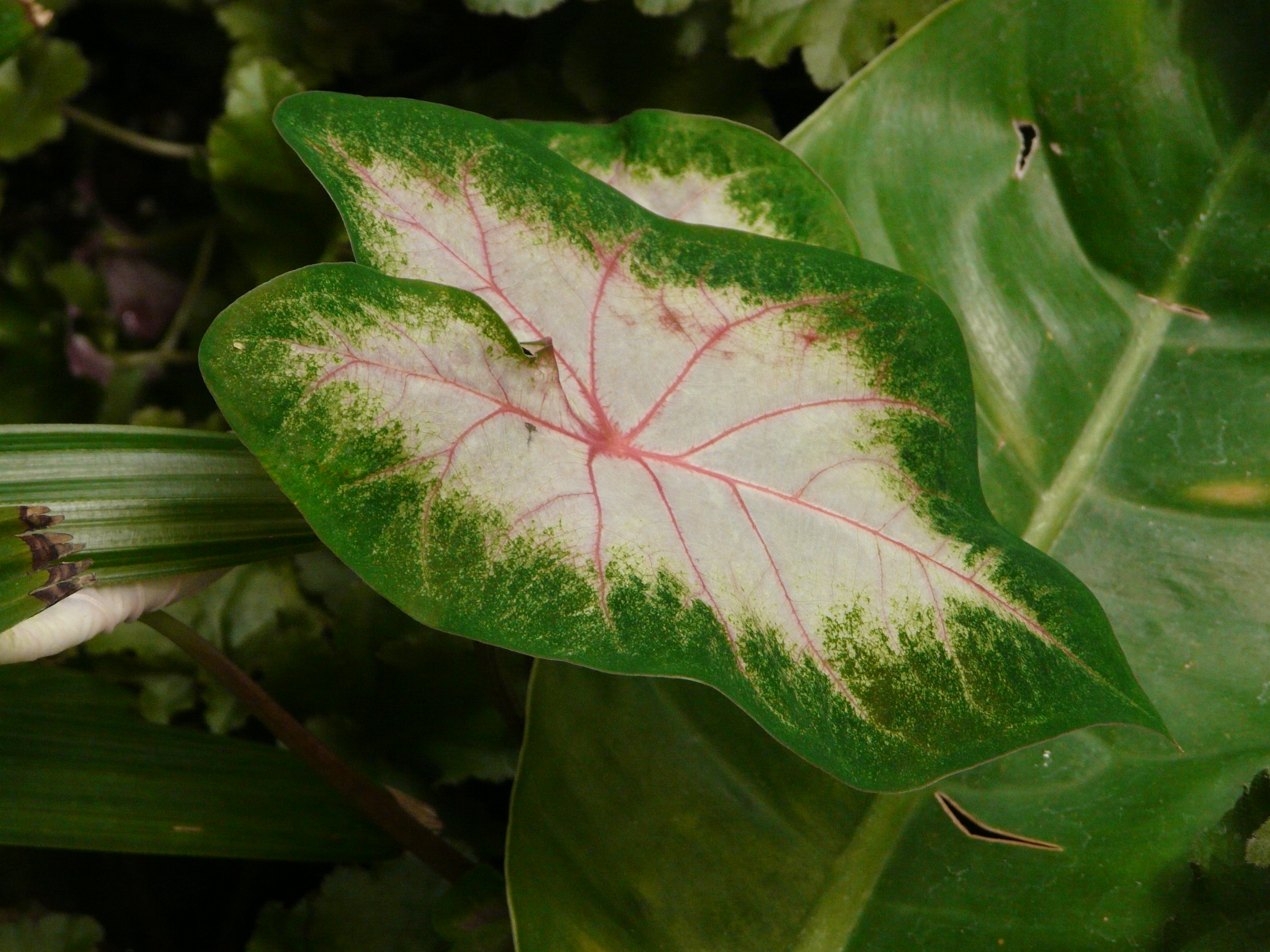 Phipps Conservatory Probably a Caladium